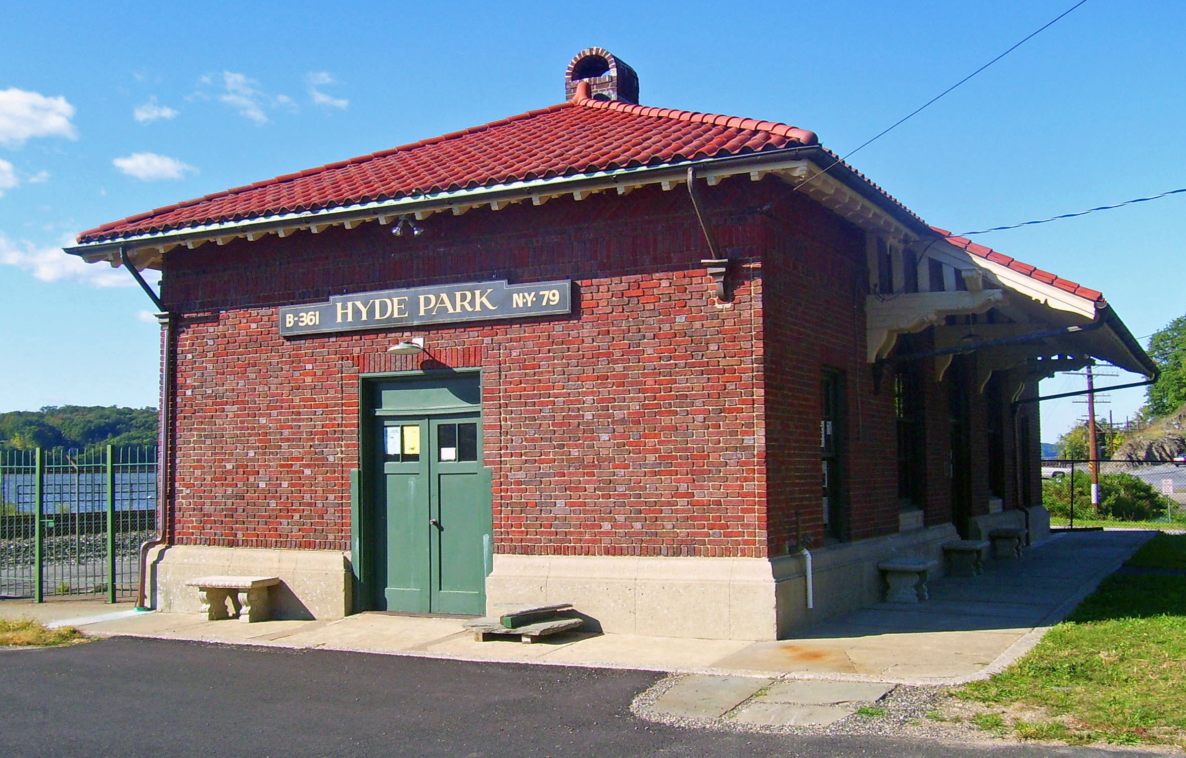 Former NYCRR station along Hudson River in Hyde Park, NY, USA